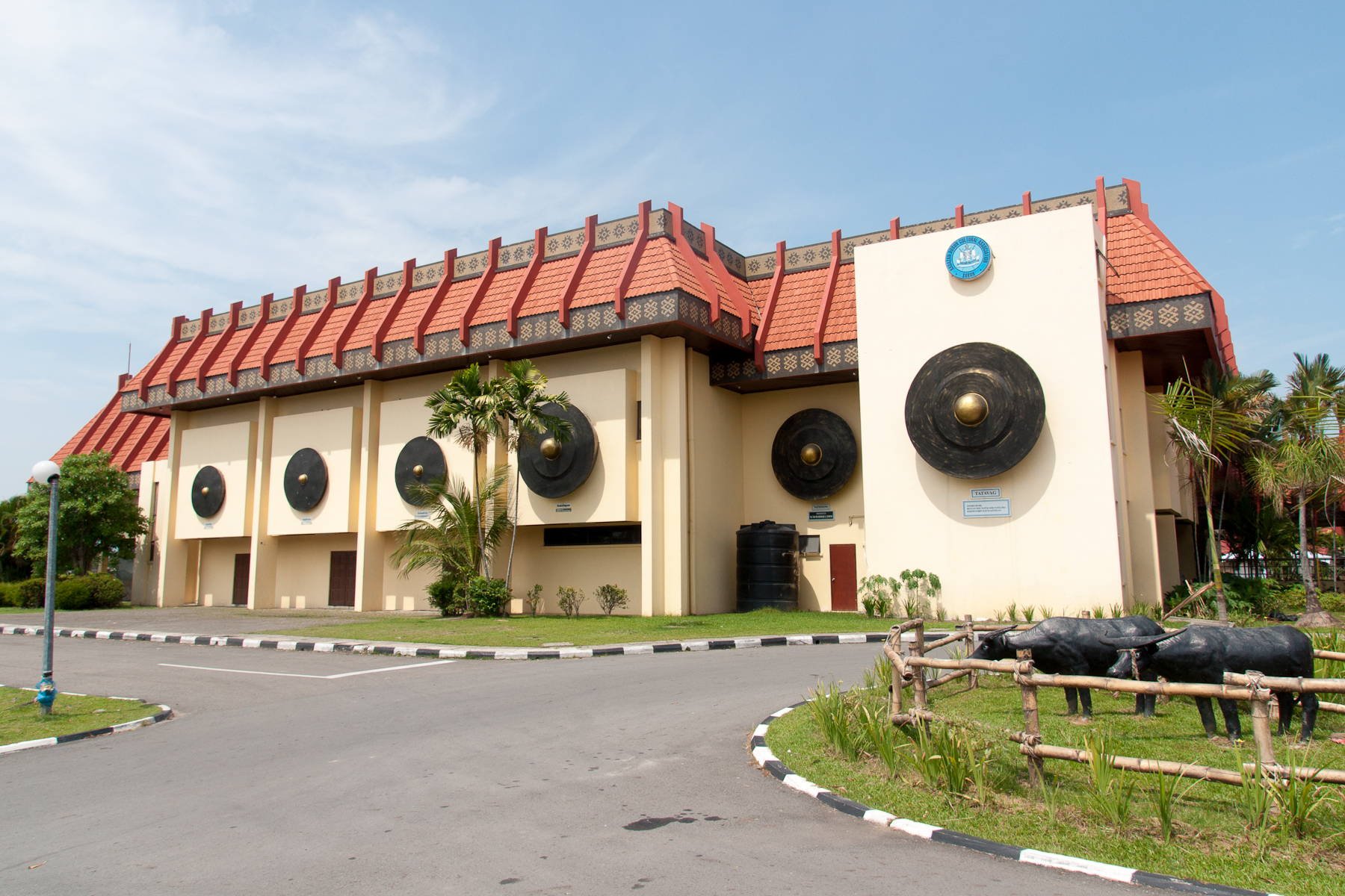 Penampang, Sabah: Hongkod Koisaan, the unity hall of KDCA